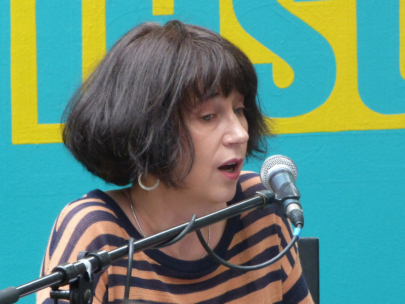 Russian/German poet and writer Olga Martynova at the Erlanger Poetenfest 2012